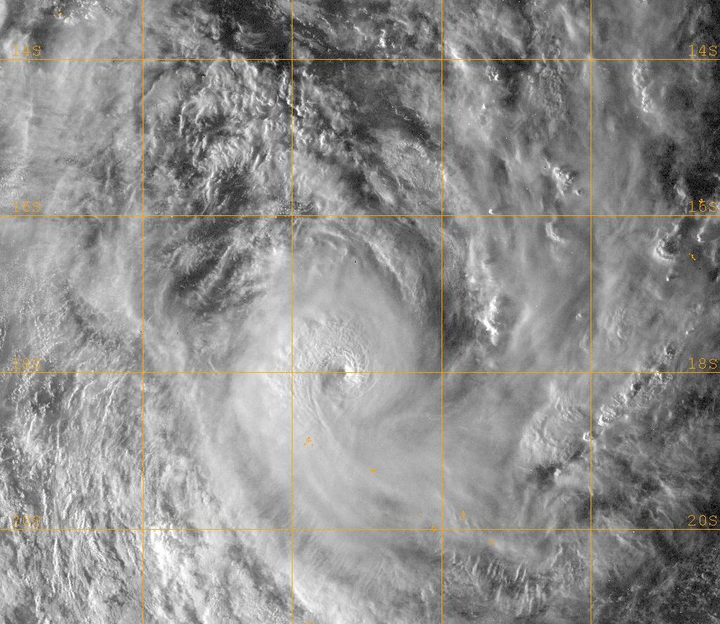 Visible satellite image of Severe Tropical Cyclone as the sun set on February 10. The storm was near its peak intensity at this time and approaching the small island of Aitutaki.